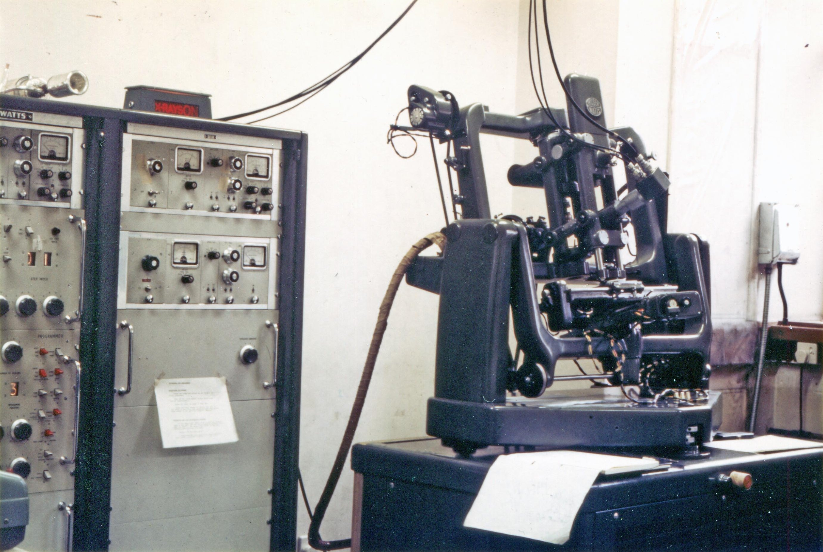 A Hilger and Watts Y190 linear X-ray diffractometer at the University of Oxford (photo: Prof. D. Watkin).